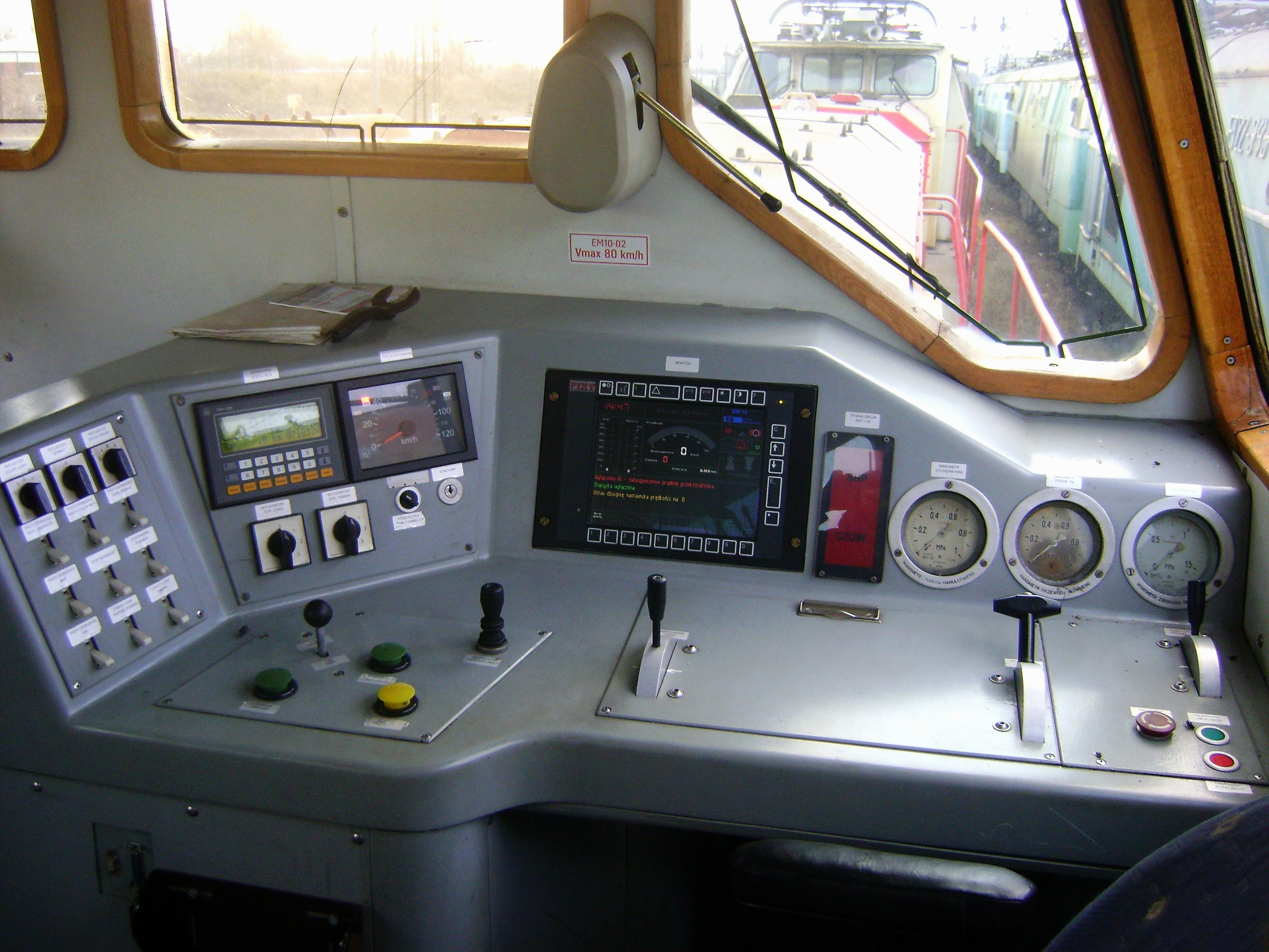 Control panel in PKP Class EM10 electric shunting locomotive